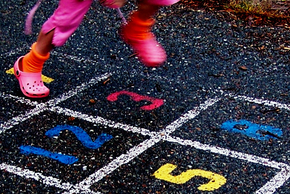 Feet in pink clogs on a colourful numbered hopscotch court.